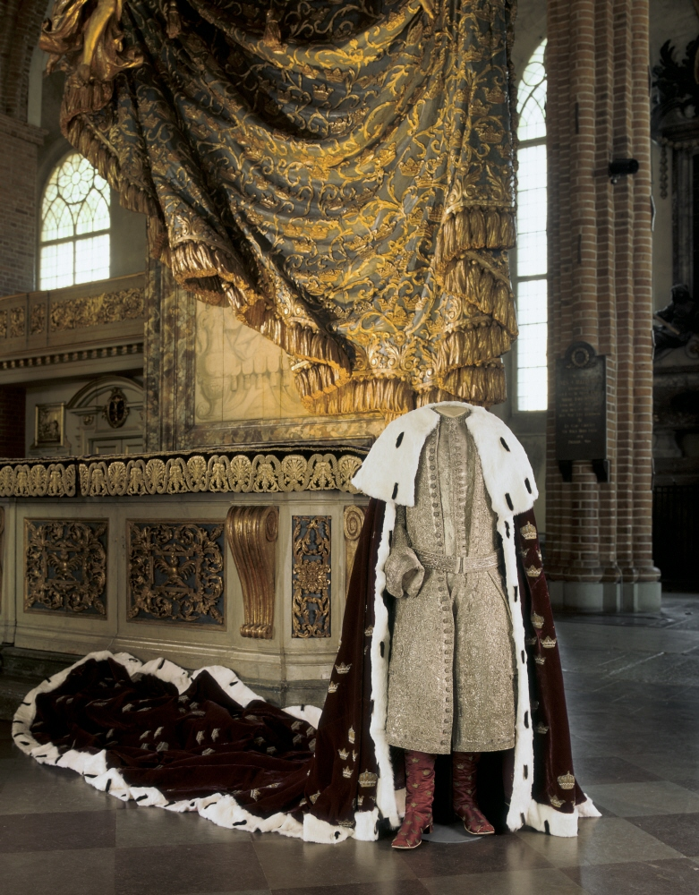 The coronation robes of king Gustavus III of Sweden, from his coronation in Stockholm on the 29th of may 1772.